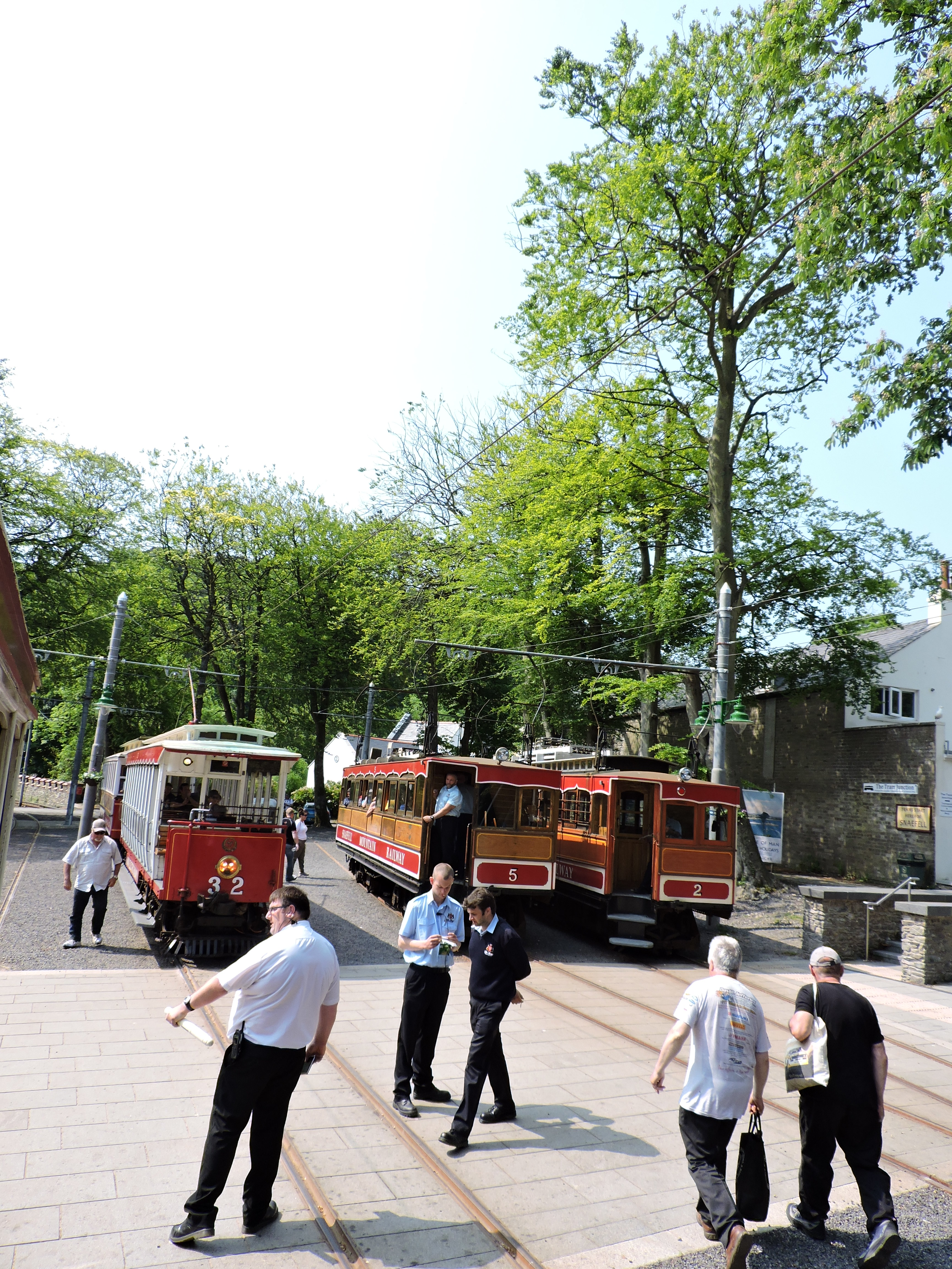 Quite a lot of activity at Laxey Tram Station, Isle of Man. This was taken during TT week, June 2016. The fella on the left is holding a baton, because one track was temporarily out of order and so they had to run traffic both ways along one short length of track. The tram with the baton has the right to run along the single track.